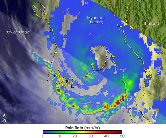 Cyclone Nargis's rain as taken by NASA's TRMM satellite